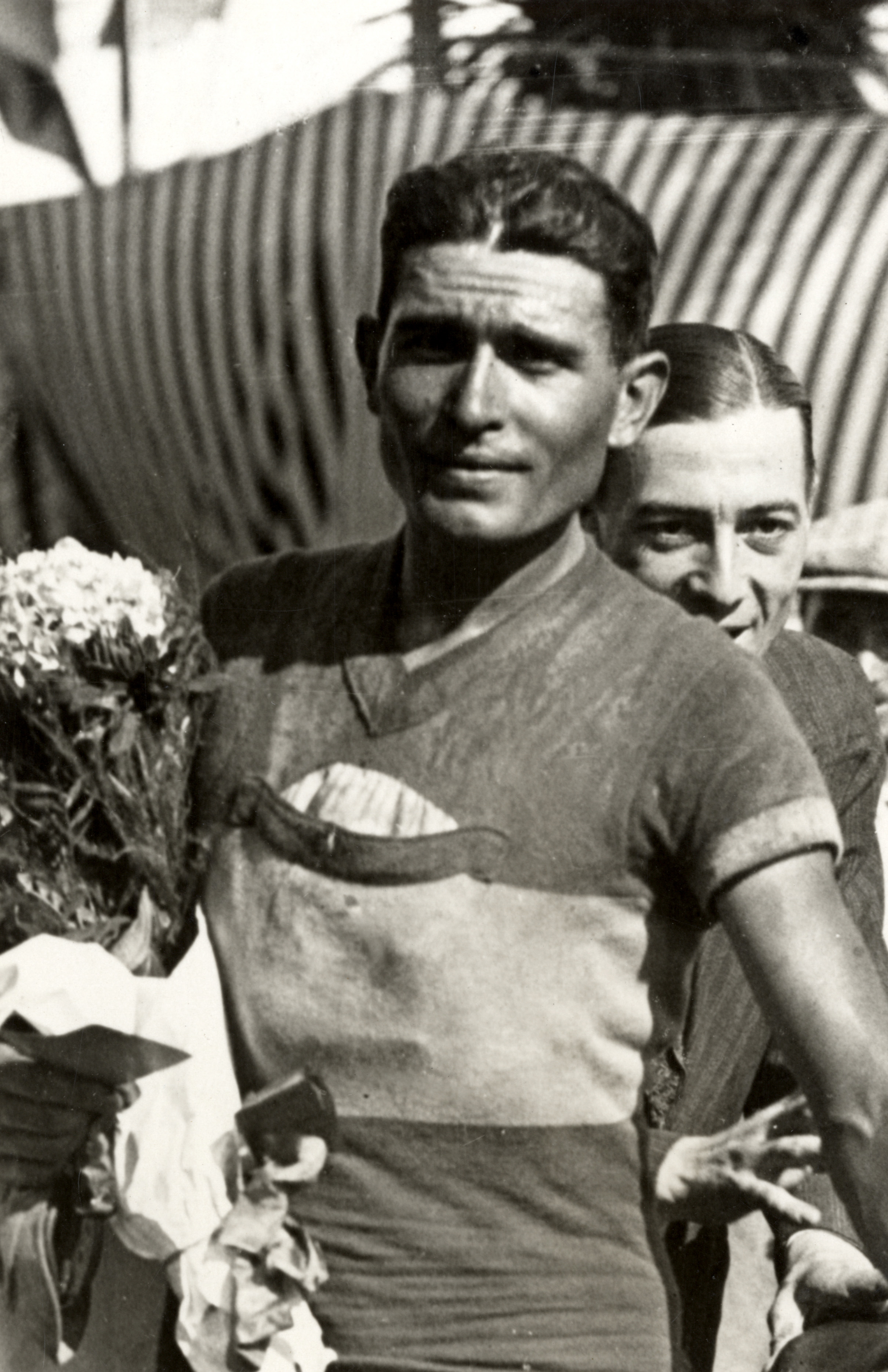 French racing cyclist Louis Peglion, participant of the 1931 Tour de France, 25 June 1931.